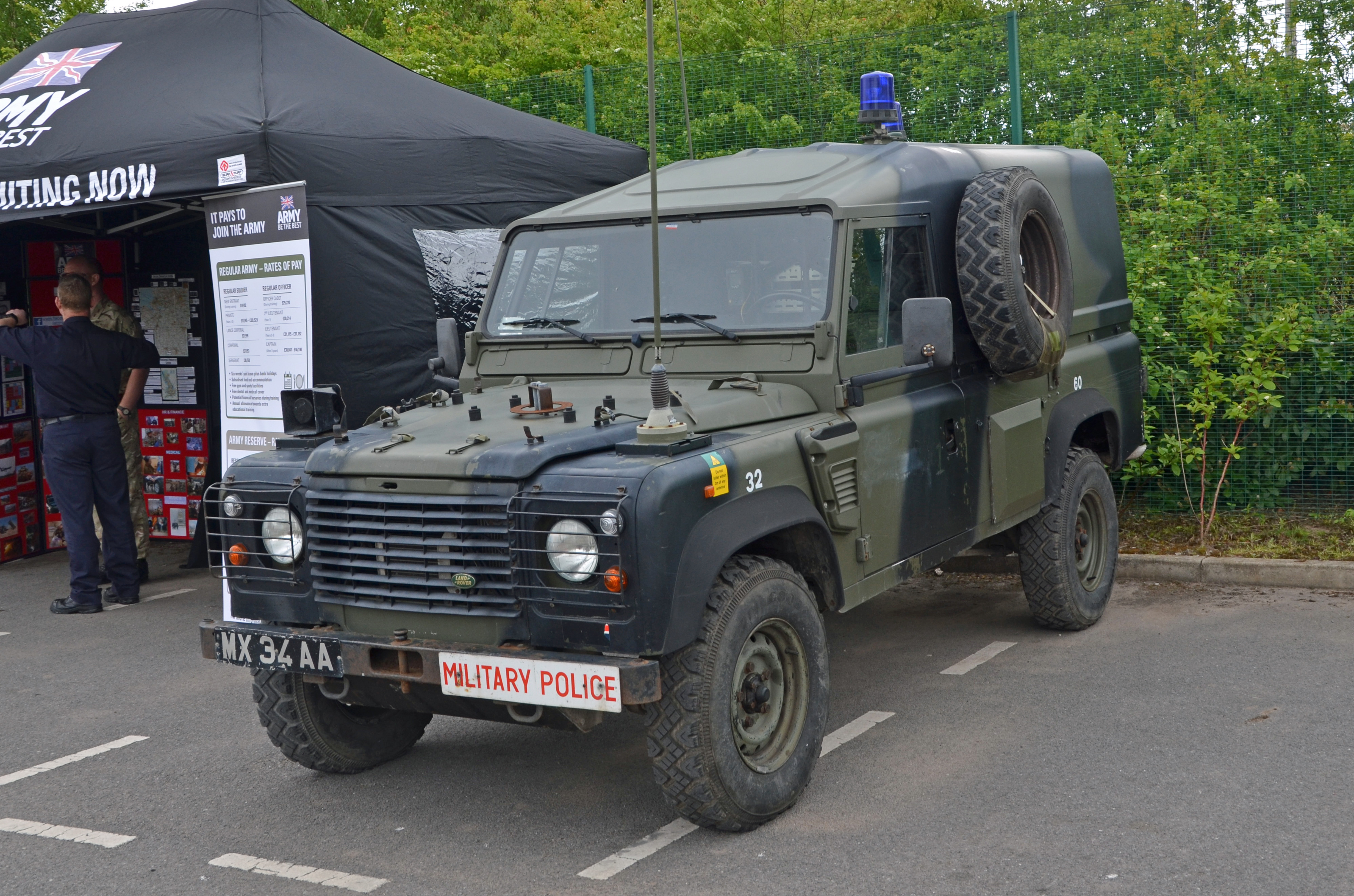 MX344AA Royal Military Police 32 Land rover Defender